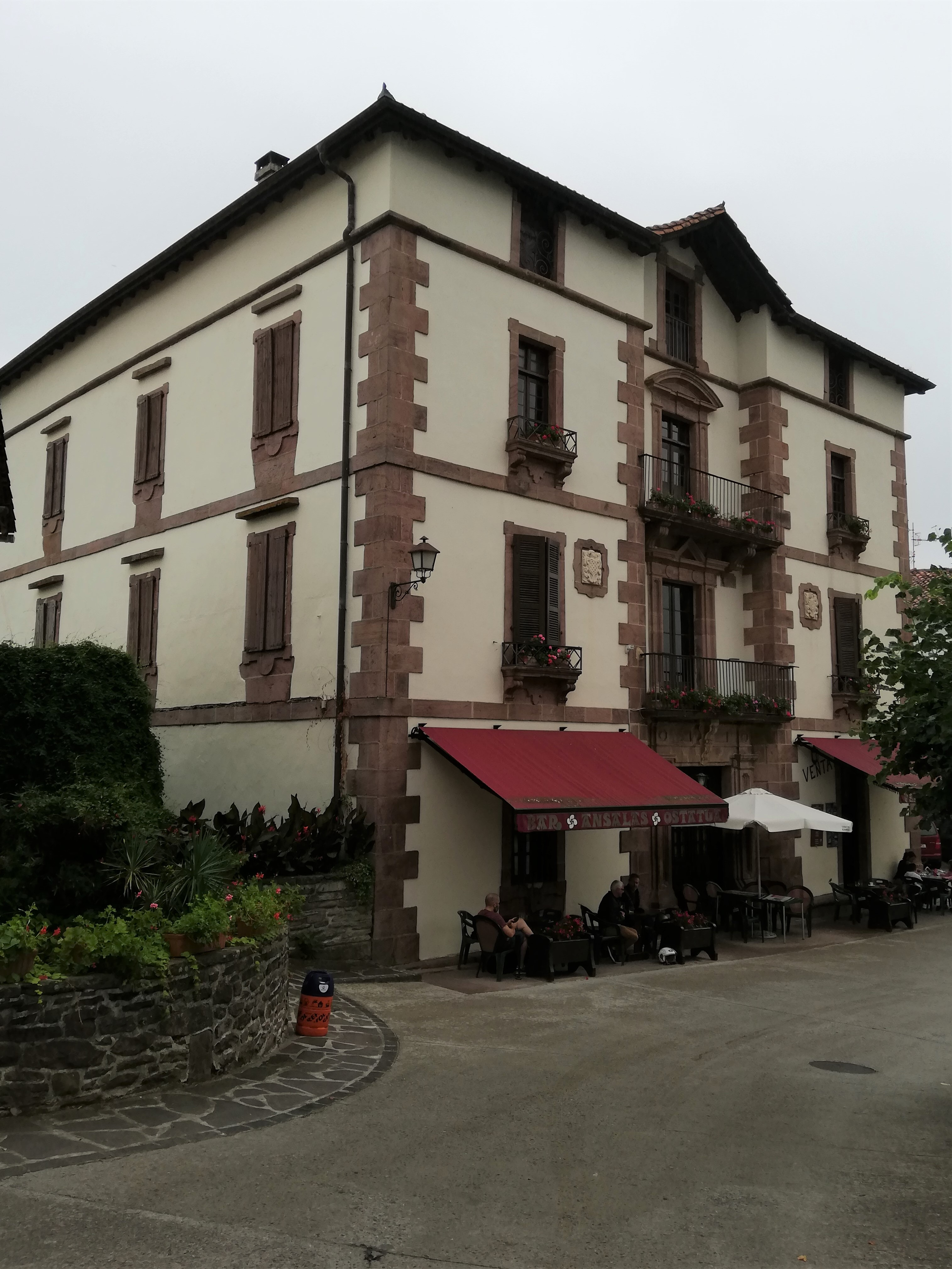 18th century palace, built by the Dutari family.